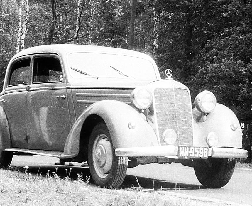 Mercedes-Benz (Polish license plates: WW=Warszawa)